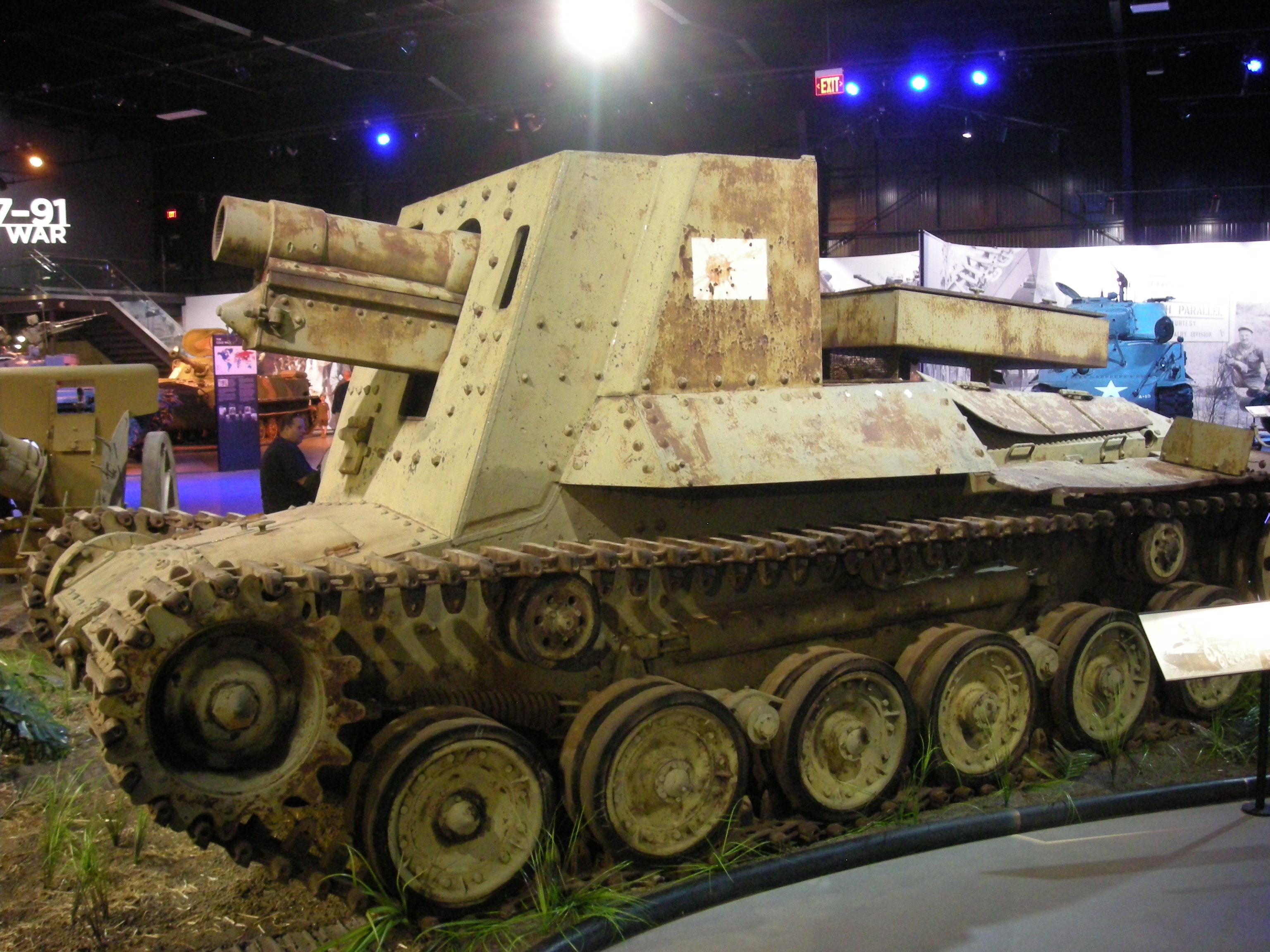 Taken at the American Heritage Museum, only surviving example